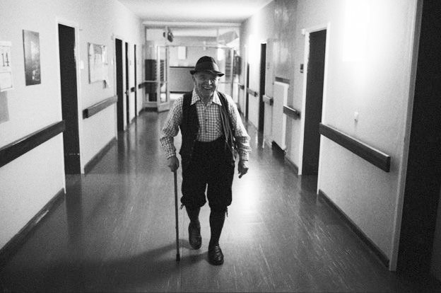 Resident of a nursing home in Munich (Germany)